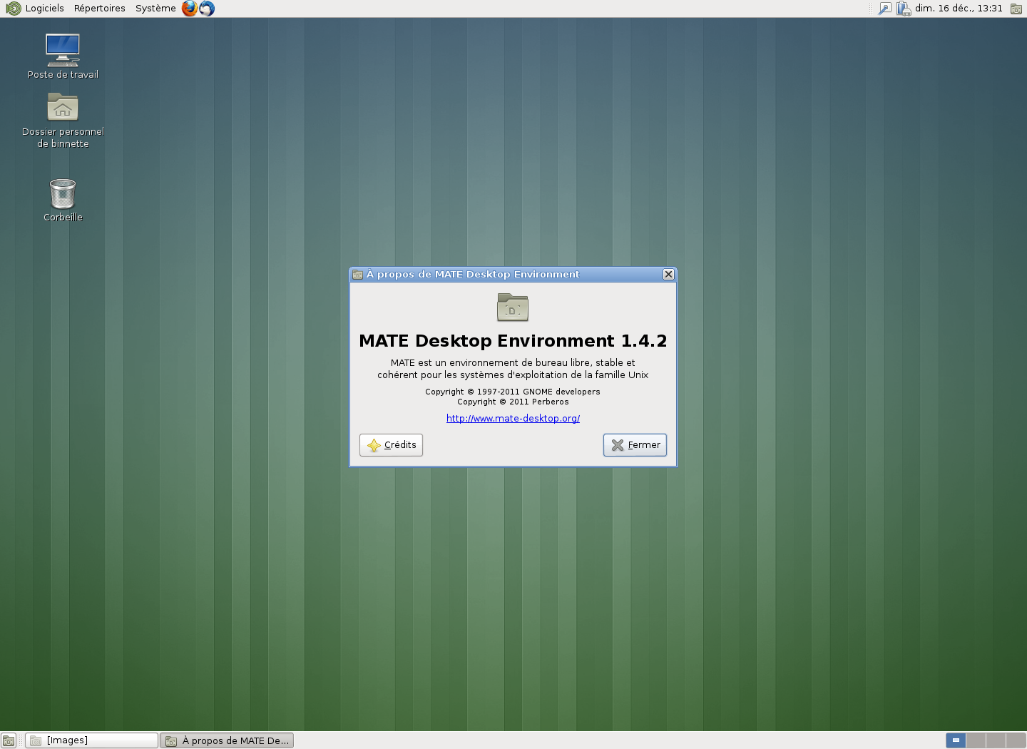 Desktop environment MATE 1.4.2 on Ubuntu 12.10